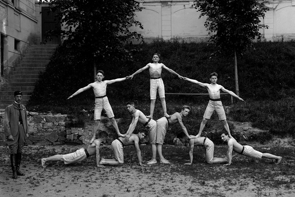 Sokol excercises in Tábor, 1924 author: Šechtl and Voseček Uploaded with approval of inheritors of the copyright